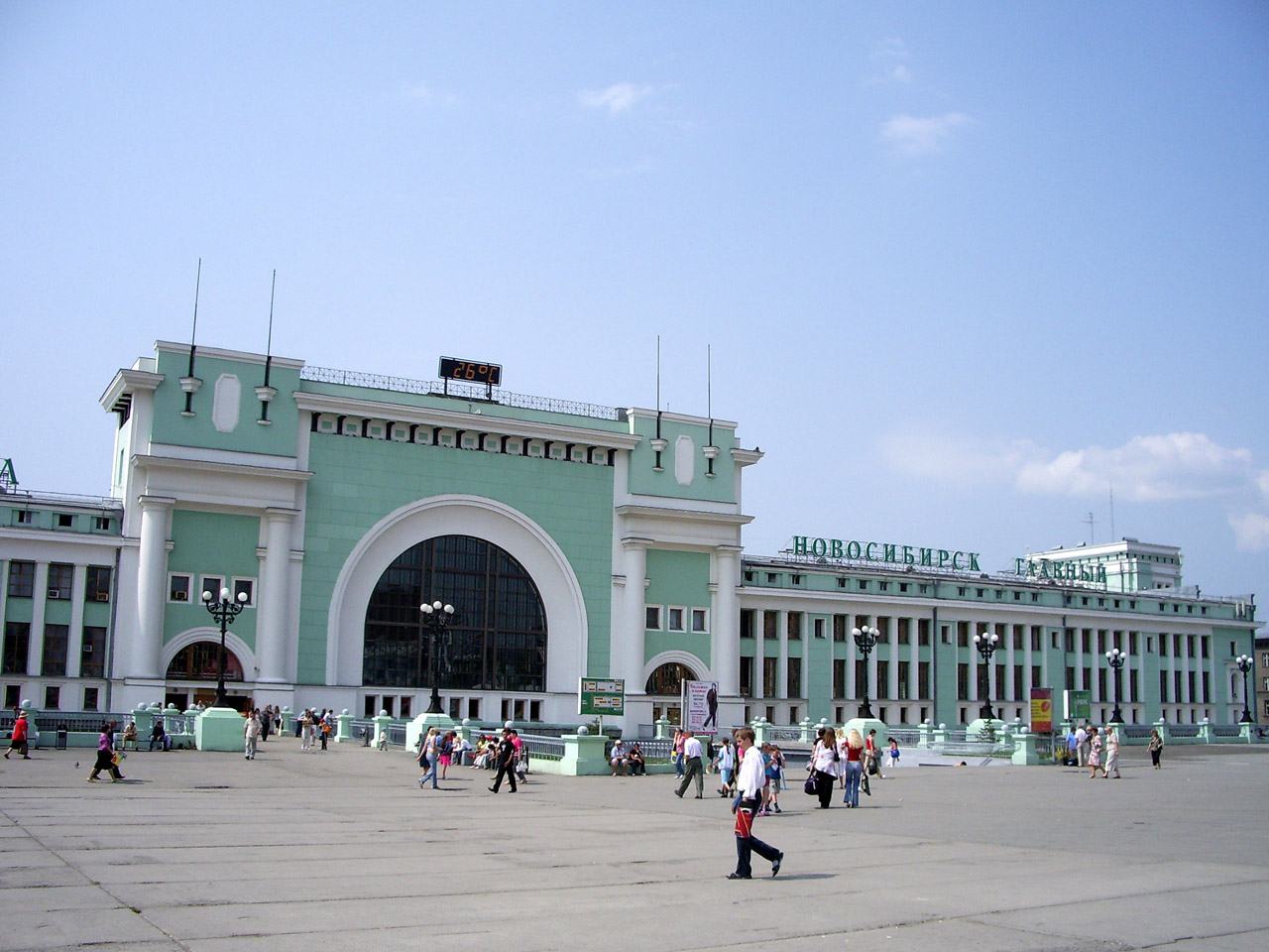 The vauxhall in Novosibirsk city at Garin-Mikhailovsky Square. A station of the Trans-Siberian railway.